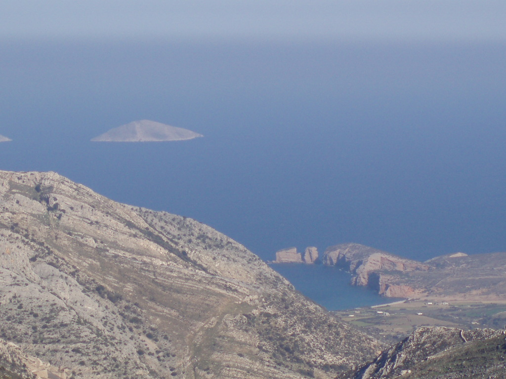 Azalas bay, and islet Snt Nicolas, east coast of Naxos